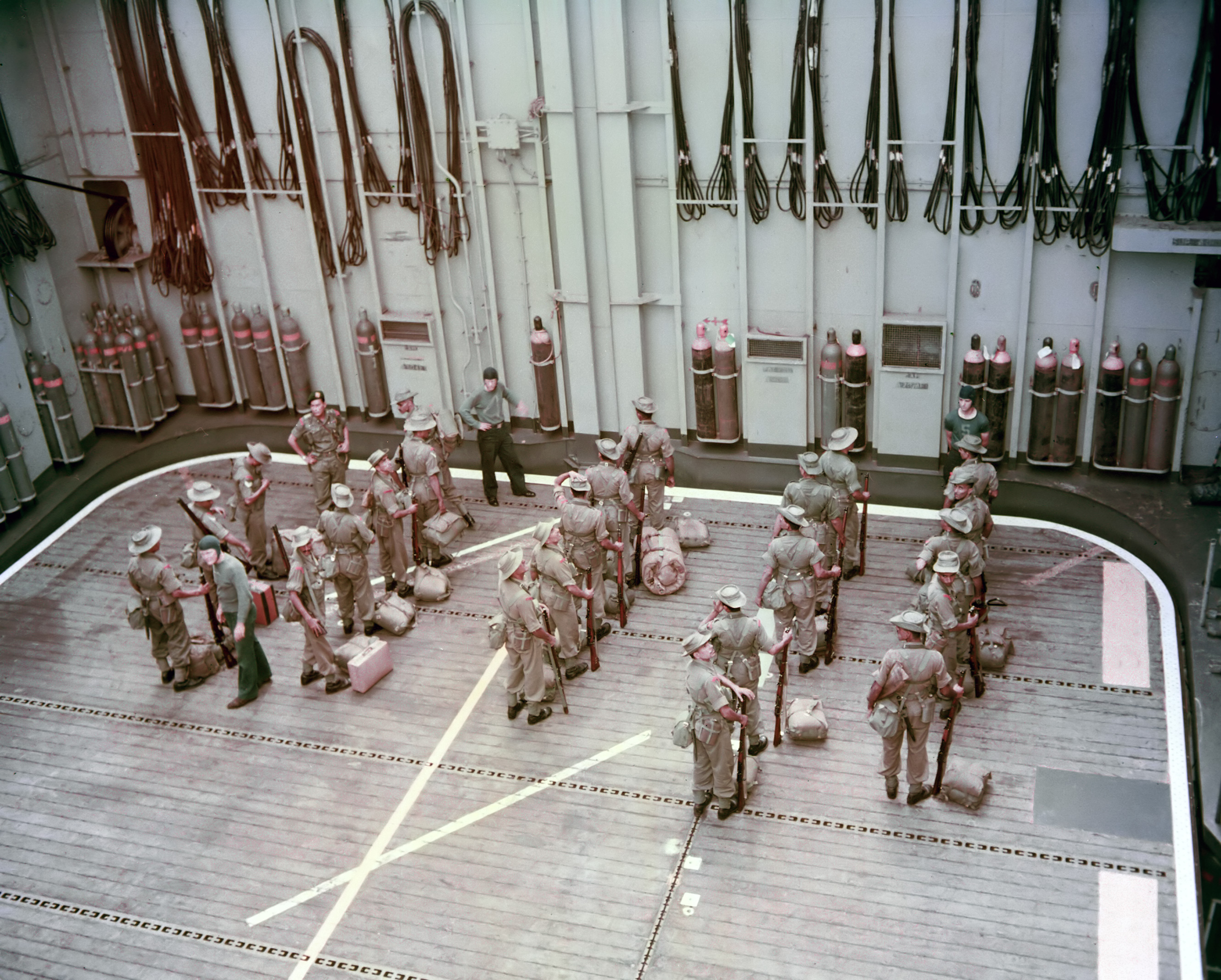 Indian troops are taken from the hangar deck to the flight deck on the elevator of the U.S. escort carrier USS Point Cruz (CVE-119) to be flown by helicopter to the neutral buffer zone in Korea on 7 September 1953.